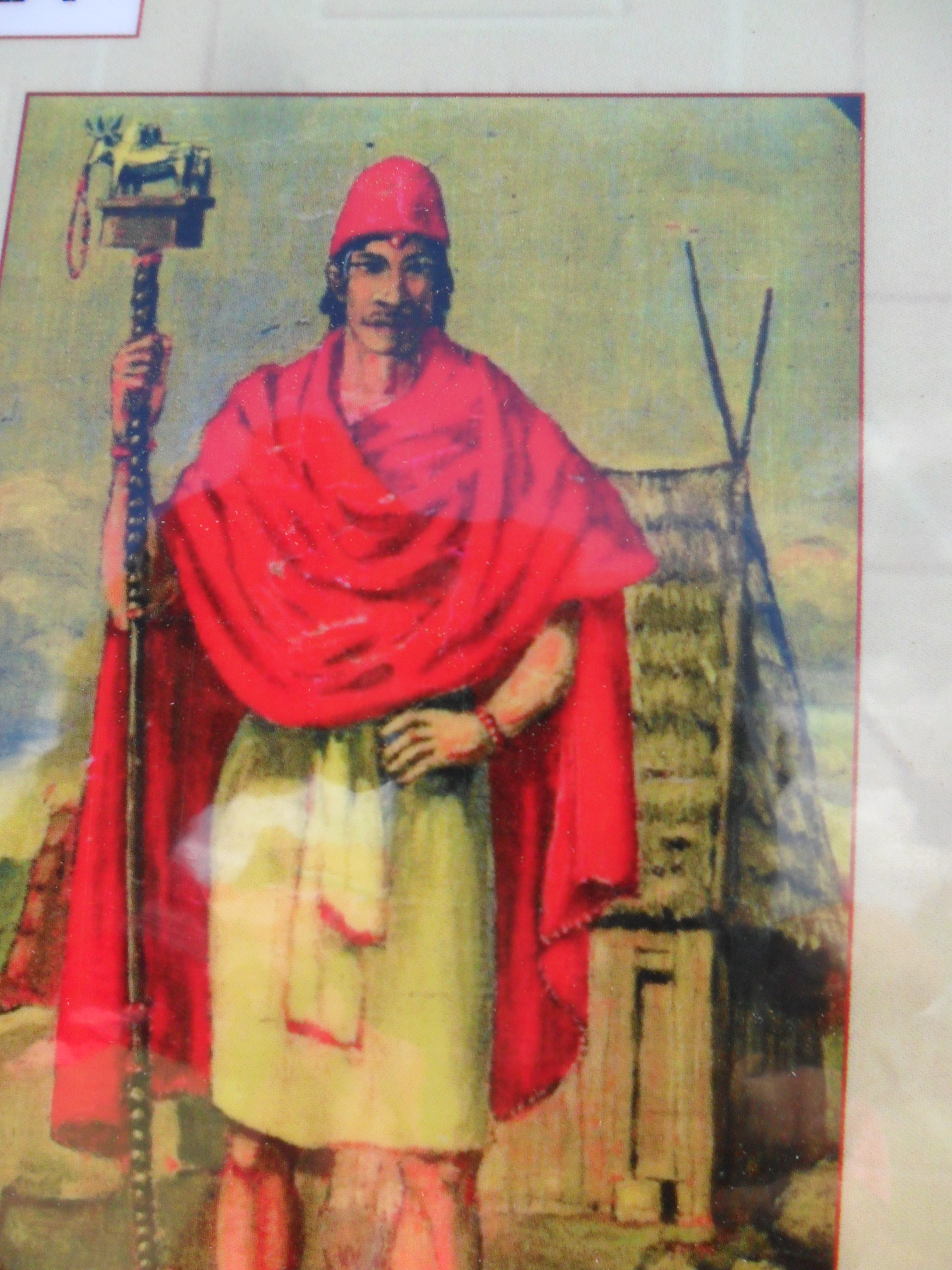 Ny mpanjaka Andrianampinimerina dia zanak'Andriamiharamanjaka izay mpanjakan'Anjozorobe tamin'ny Ranavalonandriambelomasina zanaky ny Mpanjaka Andriambelomasina mpanjakan'Ambohimanga. Tao Ambohidrabiby i Rasendrasoa vadiben'Andrianampoinimerina no namponeniny. Rasendrasoa izay taranak'Andriamanitrirazaka avy ao Ambohitsoa amin'ny taranak'Andriampolofantsy. Voalazan'ny lovantsofina fa fotsy fihodirana i Andrianampoinimerina koa nantsoina hoe " Ilahifotsy " koa izy ary avy amin'ny Alahamaditany satria ny rainy dia avy ao amin'ny fanjakan'Anjozorobe izay avaratra antsinanan'Ambohimanga misy ny reniny.